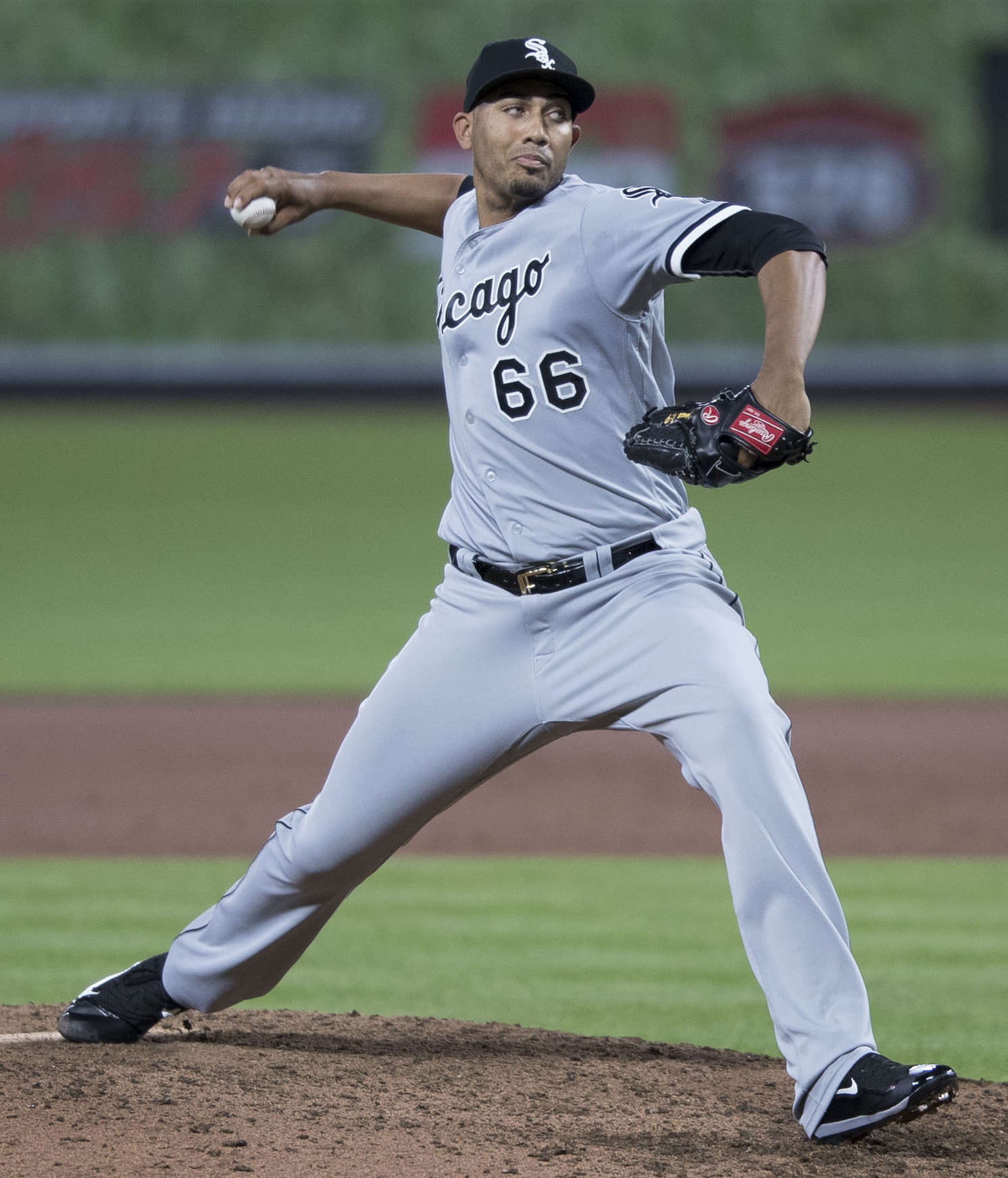 White Sox at Orioles 5/5/17